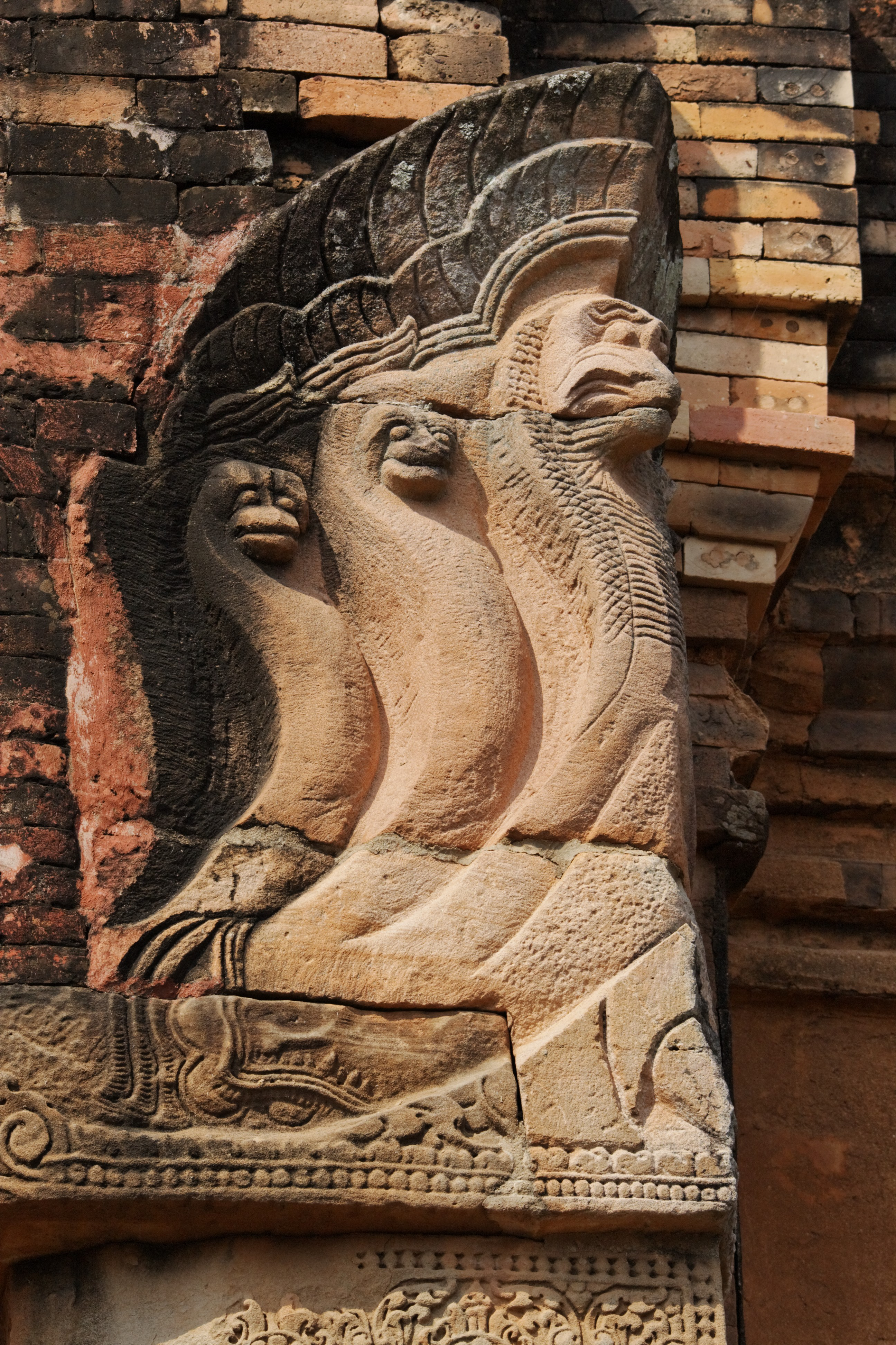 Prasat Sikhoraphum, Thailand